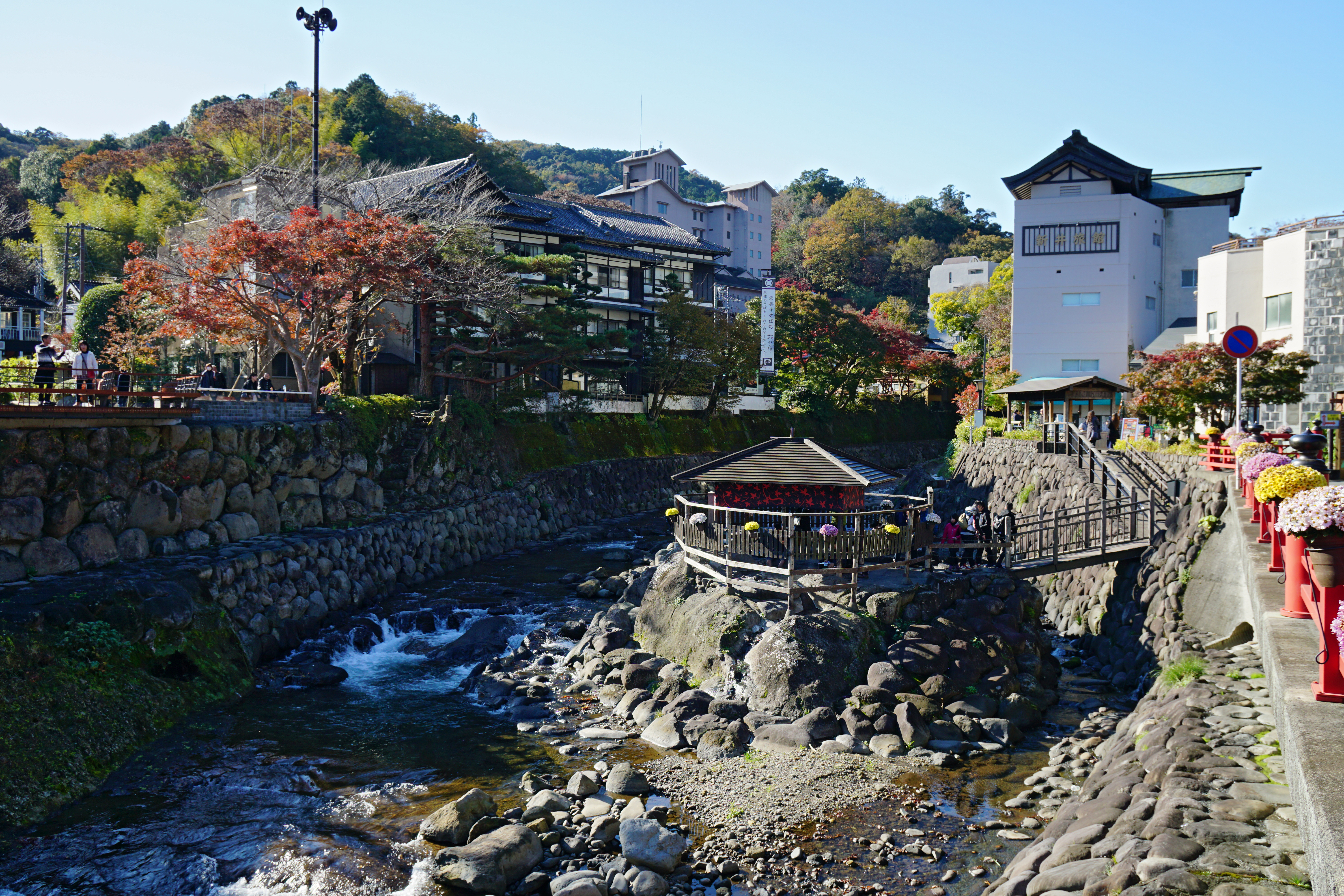 At Shuzenji Onsen in Izu, Shizuoka prefecture, Japan.